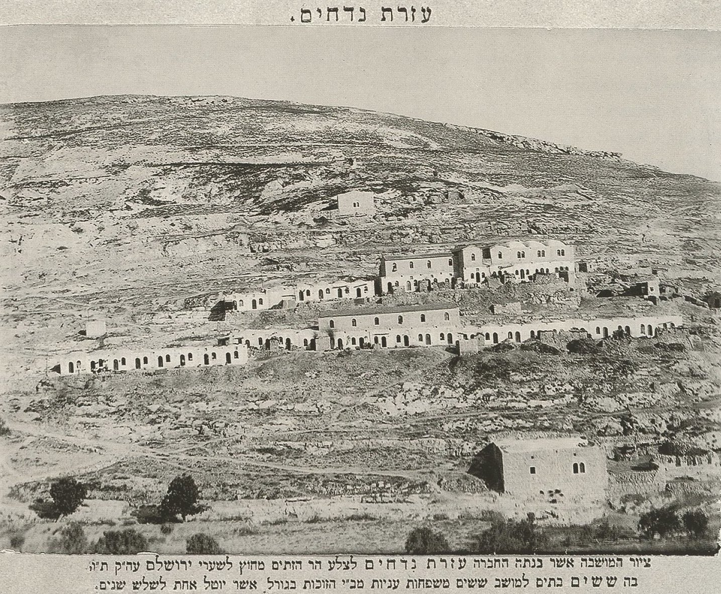 60 houses built by the Ezrat Niddachim charitable organisation in Silwan, Jerusalem, for poor Yemenite Jews in the 1880s.